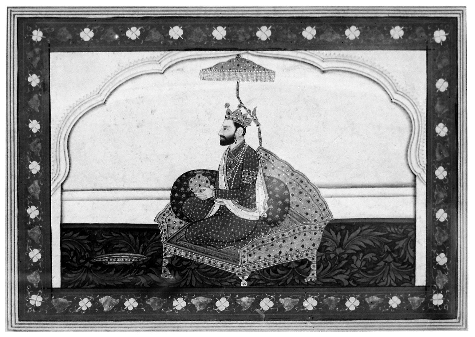 Indian physicians Charaka. Wellcome Images Keywords: charaka; hindi physician